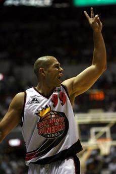 Hatfield on the court.